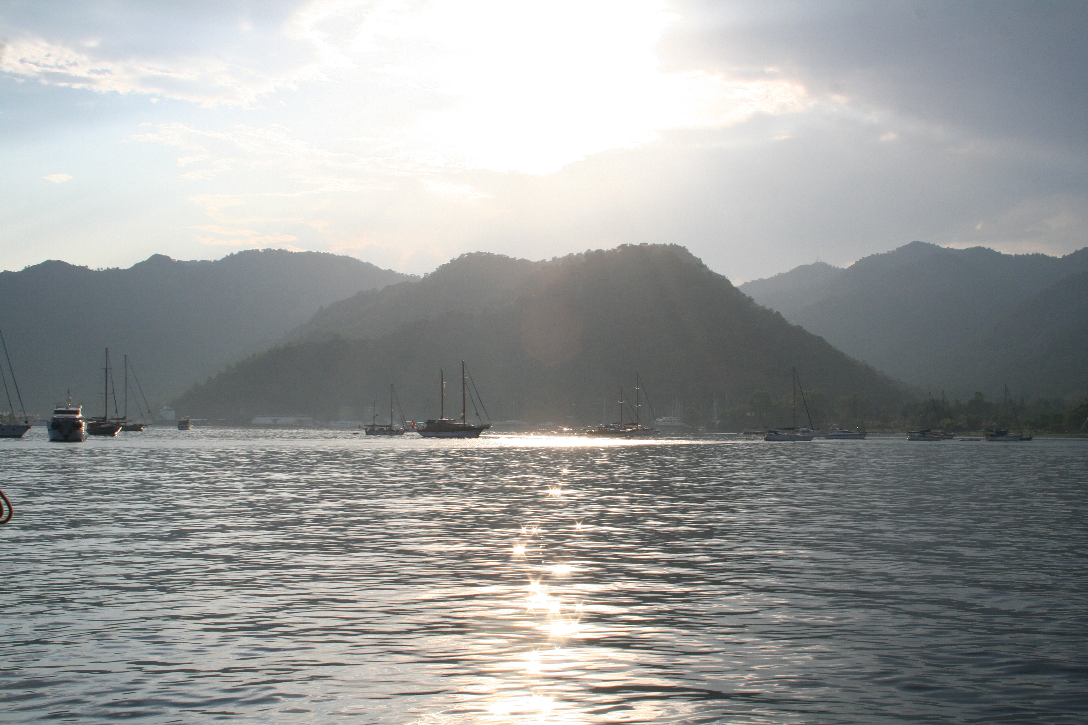 Göcek, previously named “Kalimche” in the antiquity, was conveniently located between Telmessos (today Fethiye) and Kaunos (today Dalyan). According to the legends, it is in the Göcek area that Ikarus felt in the sea after his famous flight, trying to escape from the tower where he was imprisonned. Göcek would have remained a sleepy Anatolian town if a group of artists and poets, led by Bedri Rahmi Eyüboğlu and Halikarnas`s Fisherman, had not decided to cruise along Turkish Turquoise Coast, in what was later called a “Blue Voyage”... After this trip, the bays and islands near Göcek became famous, and this destination became more and more popular amongst yachtsmen. Göcek was then used during the Ottoman period as a harbour for the ships loading chrome ore collected from the mines in the mountains nearby. That area where washing, elimination and loading took place has been announced as Tourism Establishment Area and when Enternasyonal Tourism Investments Inc. which is a subsidiary of Yapı Kredi Bank has founded Port Göcek by becoming the preferred bidder, a page in Göcek`s history has been definitely turned. The ugly, post-industrial time buildings and area were turned into a modern and beautiful marina, offering the highest standards to the yachts and their owners, but also totally preserving the environment. Port Göcek, managed in association with Camper and Nicholsons Marinas Ltd, started its operation in 1999 and is built with floating pontoons, thus ensuring a perfect water circulation and a minimum impact on the shoreline. The breakwater is also a floating one, the result of high-tech researchs from the Canadian company Technomarine. This floating “wave breaker” has been calculated to stand wind forces up to 120 km/h. when the average is only 40 km/h.